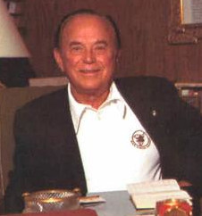 McDonald's and San Diego Padres owner Ray Croc, circa 1978.